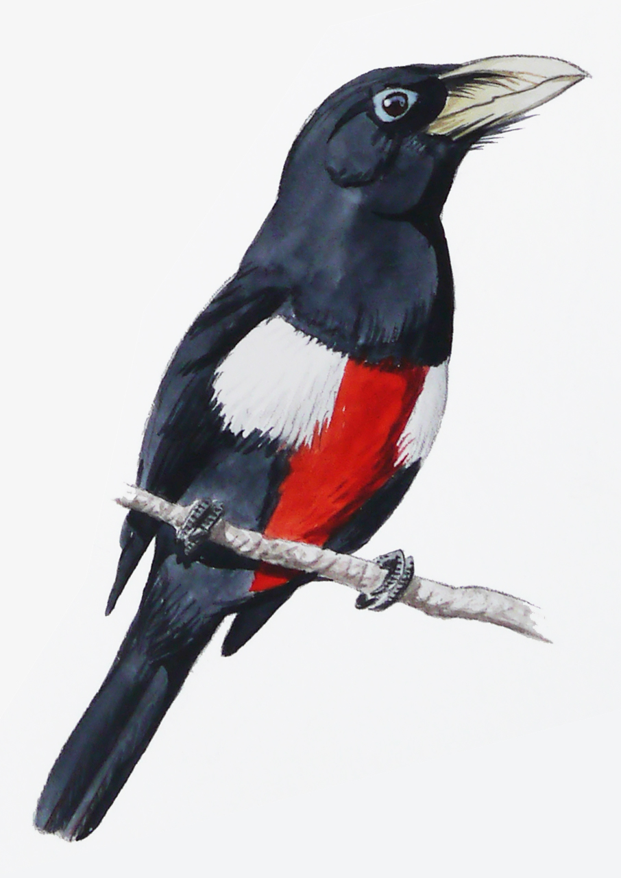 Black-breasted Barbet